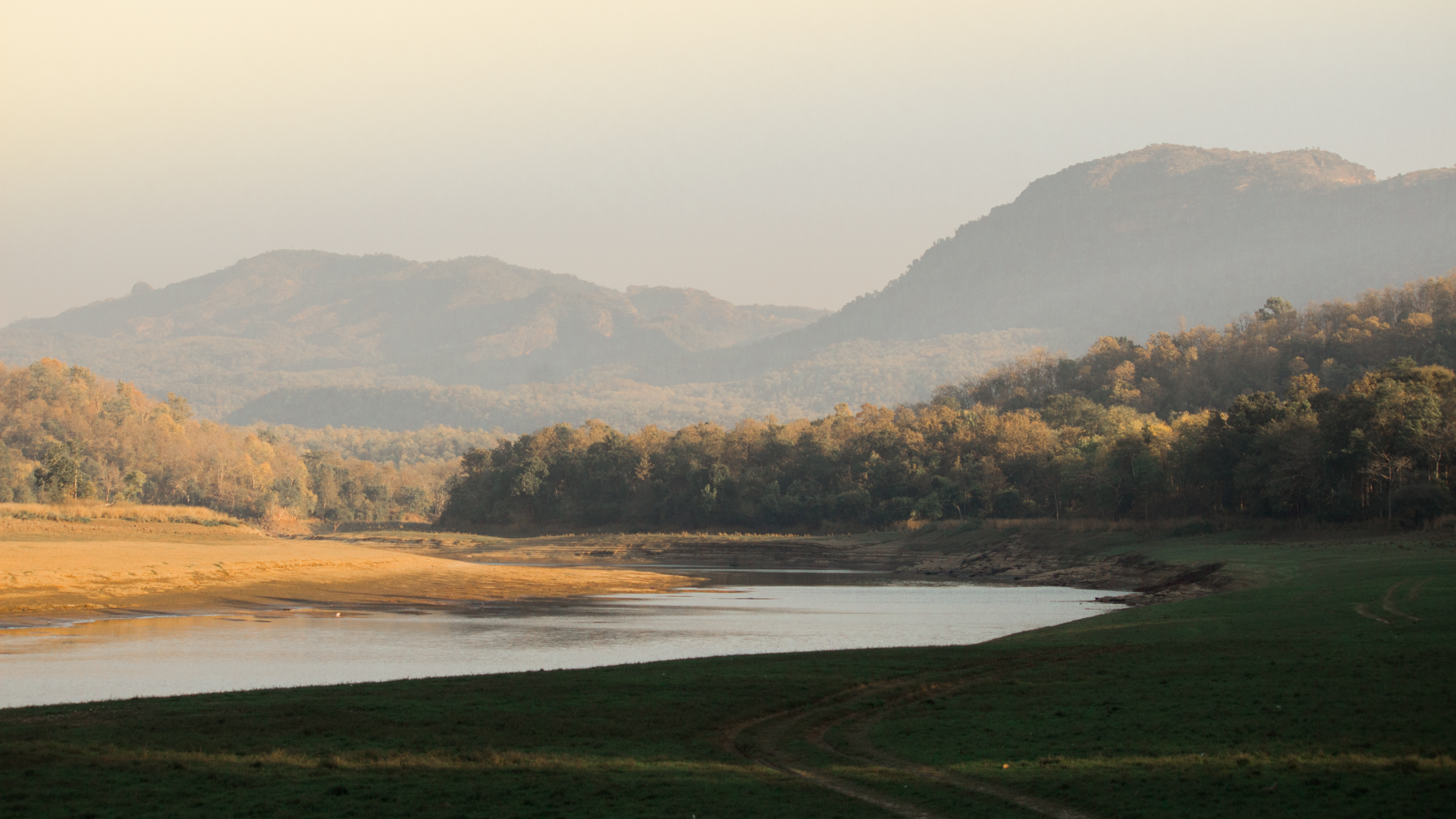 This Amazing Landscape is captured at Satpura Tiger Reserve, Madhai, which is located in the Madhya Pradesh State of India.